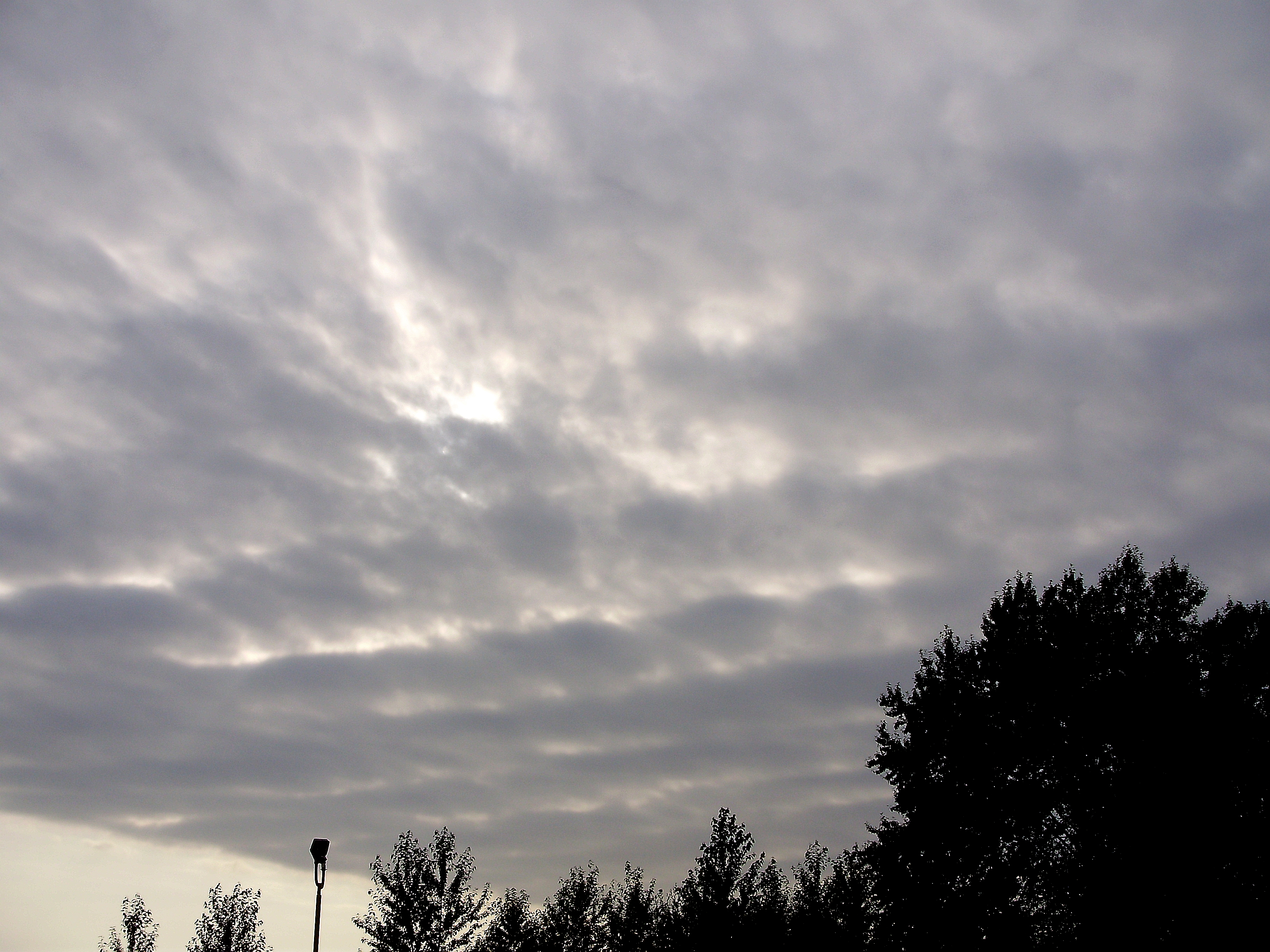 Stratocumulus stratiformis undulatus clouds.